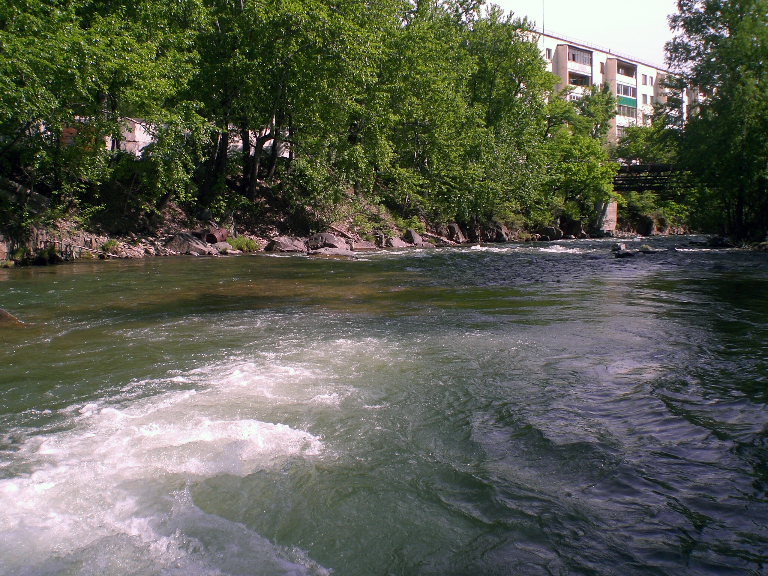 Rudnaya river